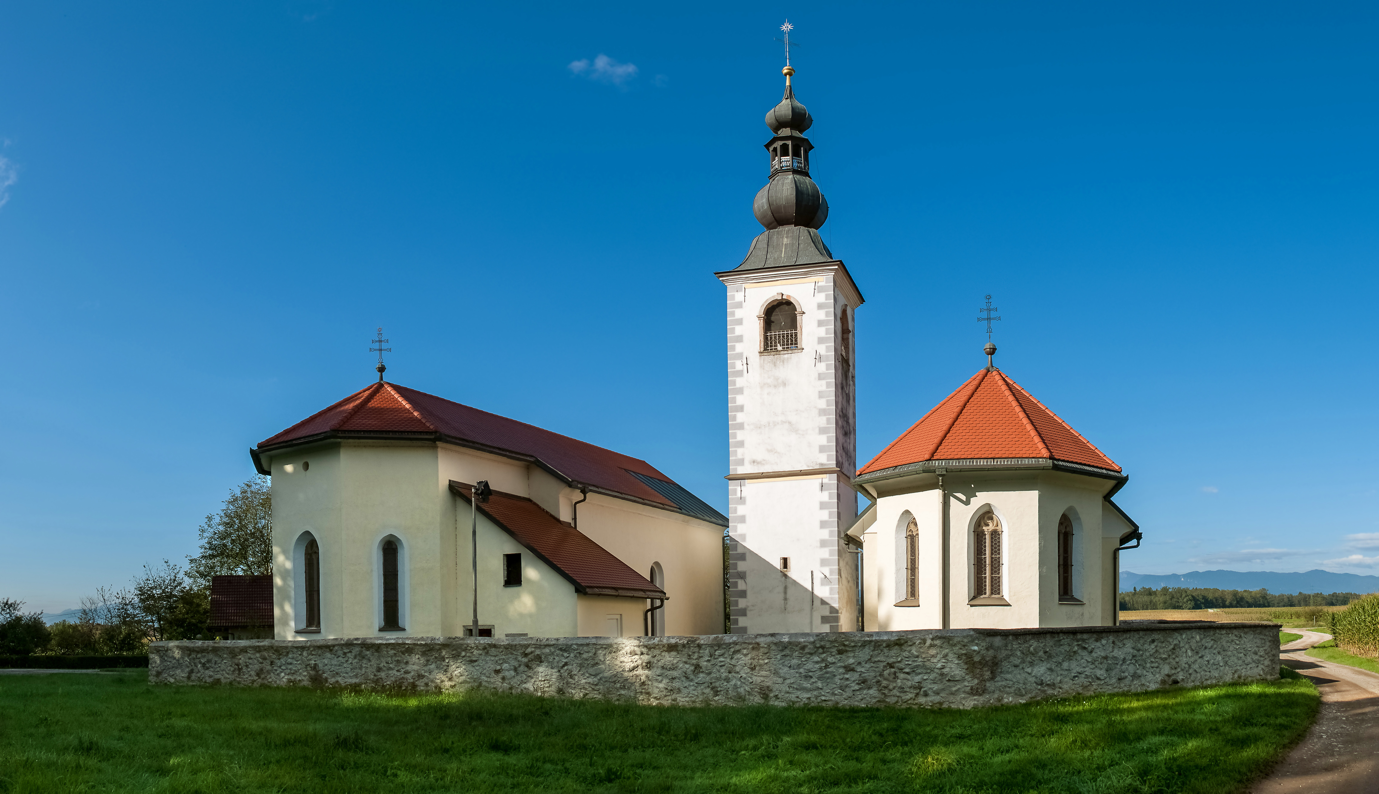 Saint Radegund and Saint Catherine in Srednja vas near Šenčur, Slovenia.